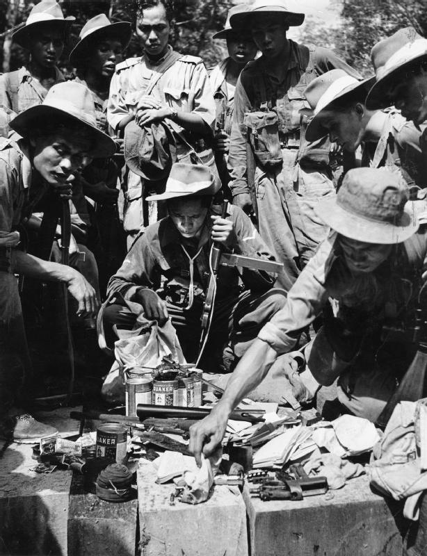 Members of the Malay Regiment inspect equipment, supplies and documents captured in a raid on a communist terrorist jungle camp.